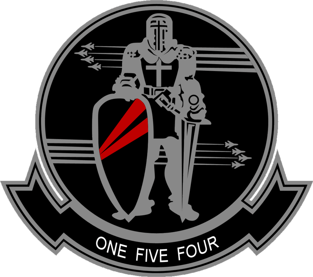 Insignia of the U.S. Navy Strike Fighter Squadron 154 (VFA-154) "Black Knights".